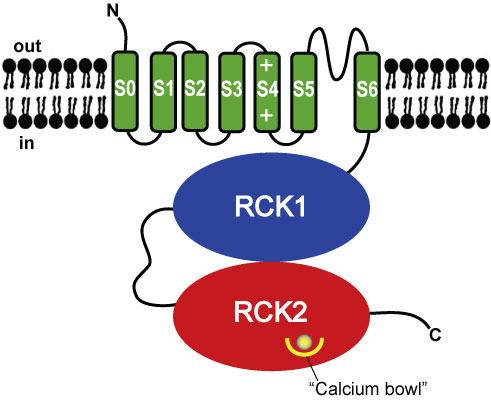 Schematic of domain structure of BK channel